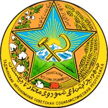 Coat of arms of Tajik ASSR (1929)